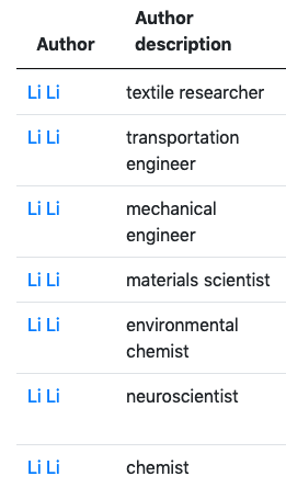 Scholia comparison page for seven people named "Li Li" as of 2019-12-02. The bottom-most query times out.